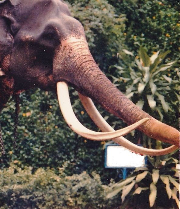 Heiyantuduwa Raja's Photo